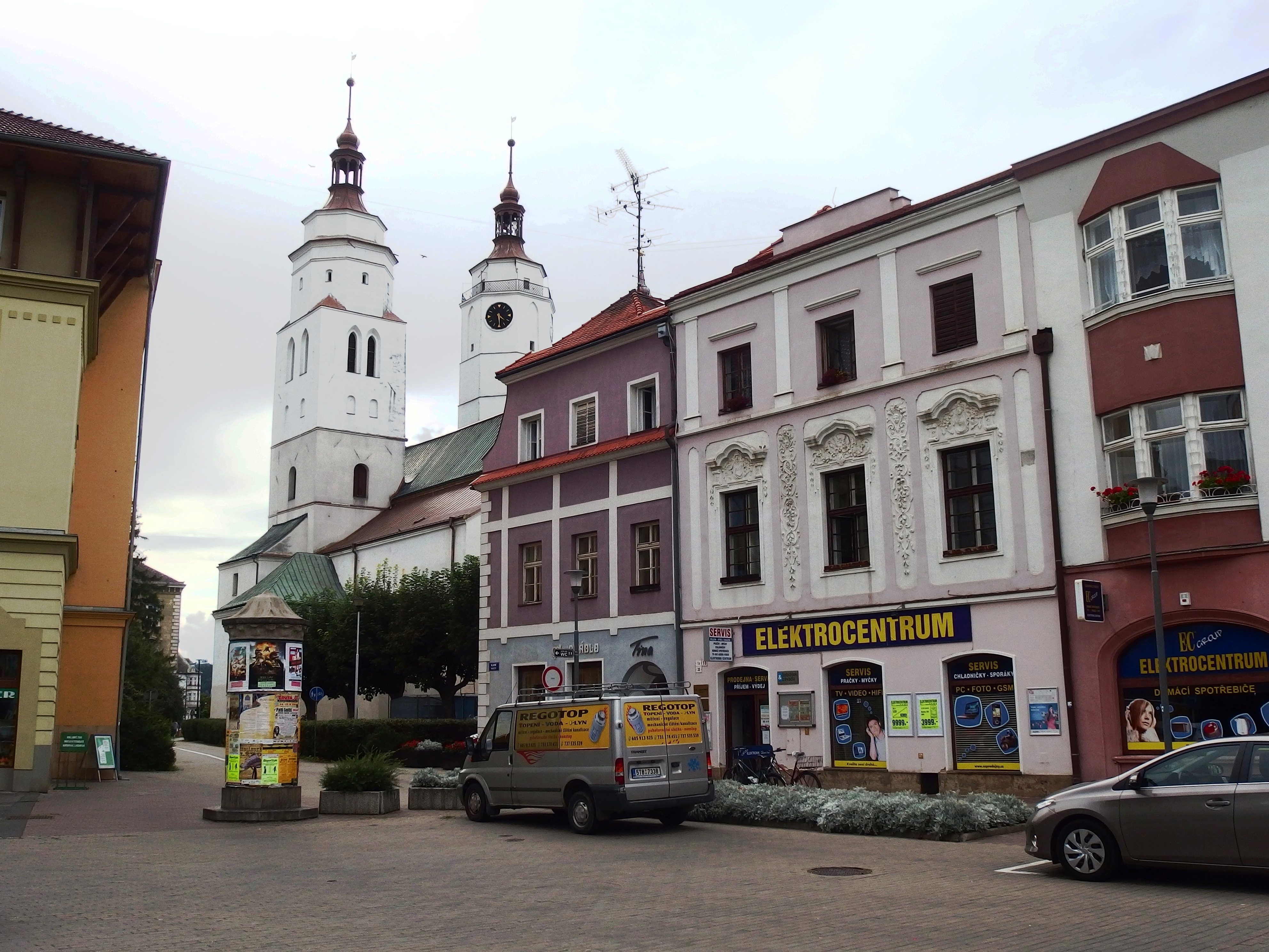 Krnov, Bruntál District, Czech Republic.